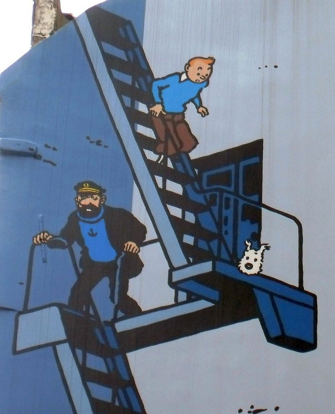 The Adventures of Tintin mural painting by Hergé. Location: Rue de l'Etuve 37, Brussels. Surface: ± 36 m². Realisation: Oreopoulos G. and Vandegeerde D. Year: July 2005. Comment: The scene belongs to the album The Calculus Affair. The Adventures of Tintin (Les Aventures de Tintin) is a series of classic comic books created by the Belgian artist Georges Rémi (1907–1983), who wrote under the pen name of Hergé.